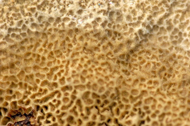 Phaeolus schweinitzii from Commanster, Belgium. The determination of the species shown in this picture has been verified.